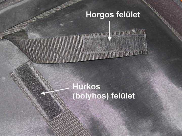 Velcro in a portfolio, on the fastening strap (Hurkos felület = Loops, Horgos felület = Hooks)